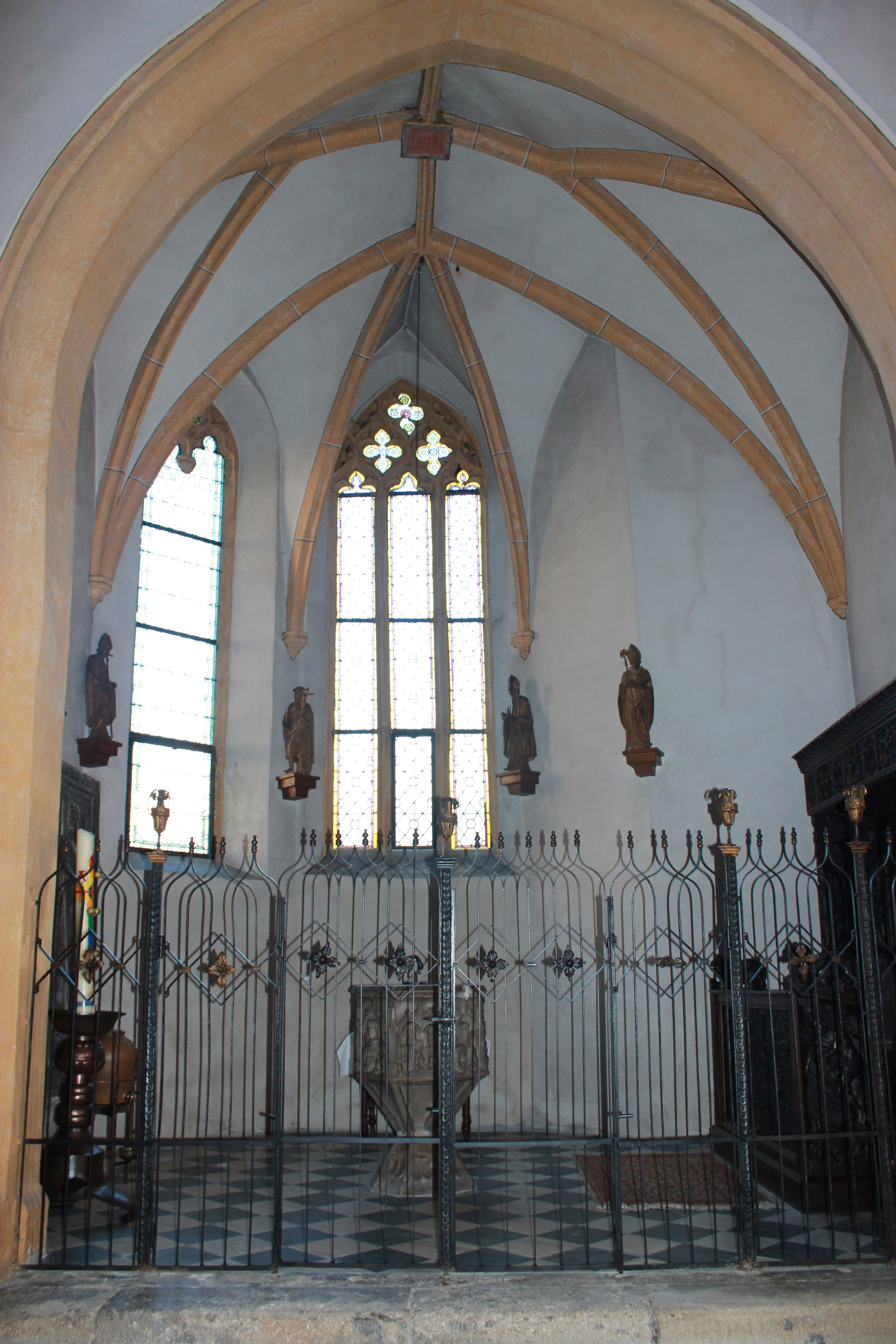 Parish church St. Jakob in Villach - Leininger chapell